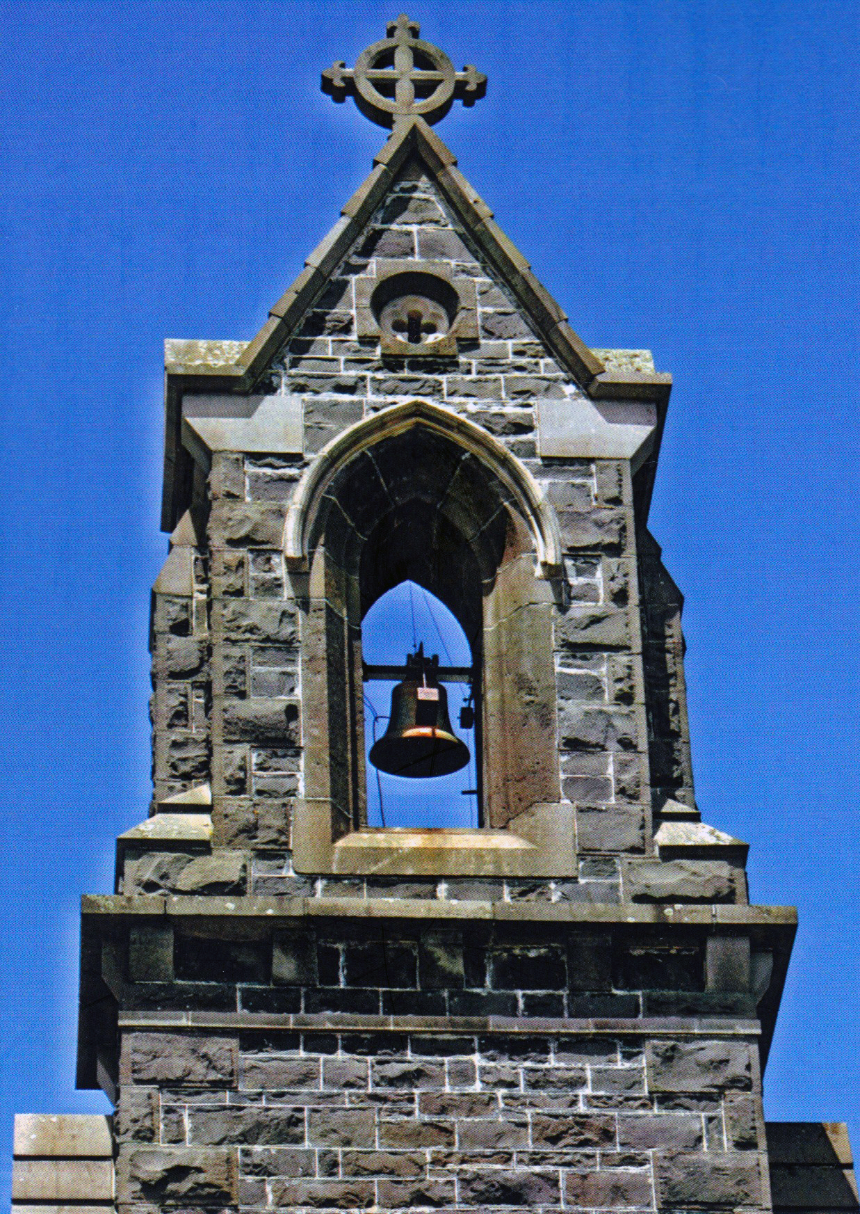 Bellcote from the Pioneer Chapel of St Andrew's Church, Brighton